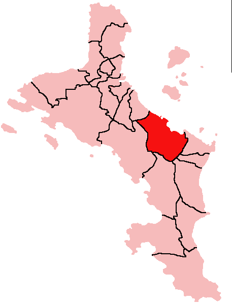 Map of Mahe Island, Seychelles showing Cascade District; created with the GIMP. Made by User:Acntx.